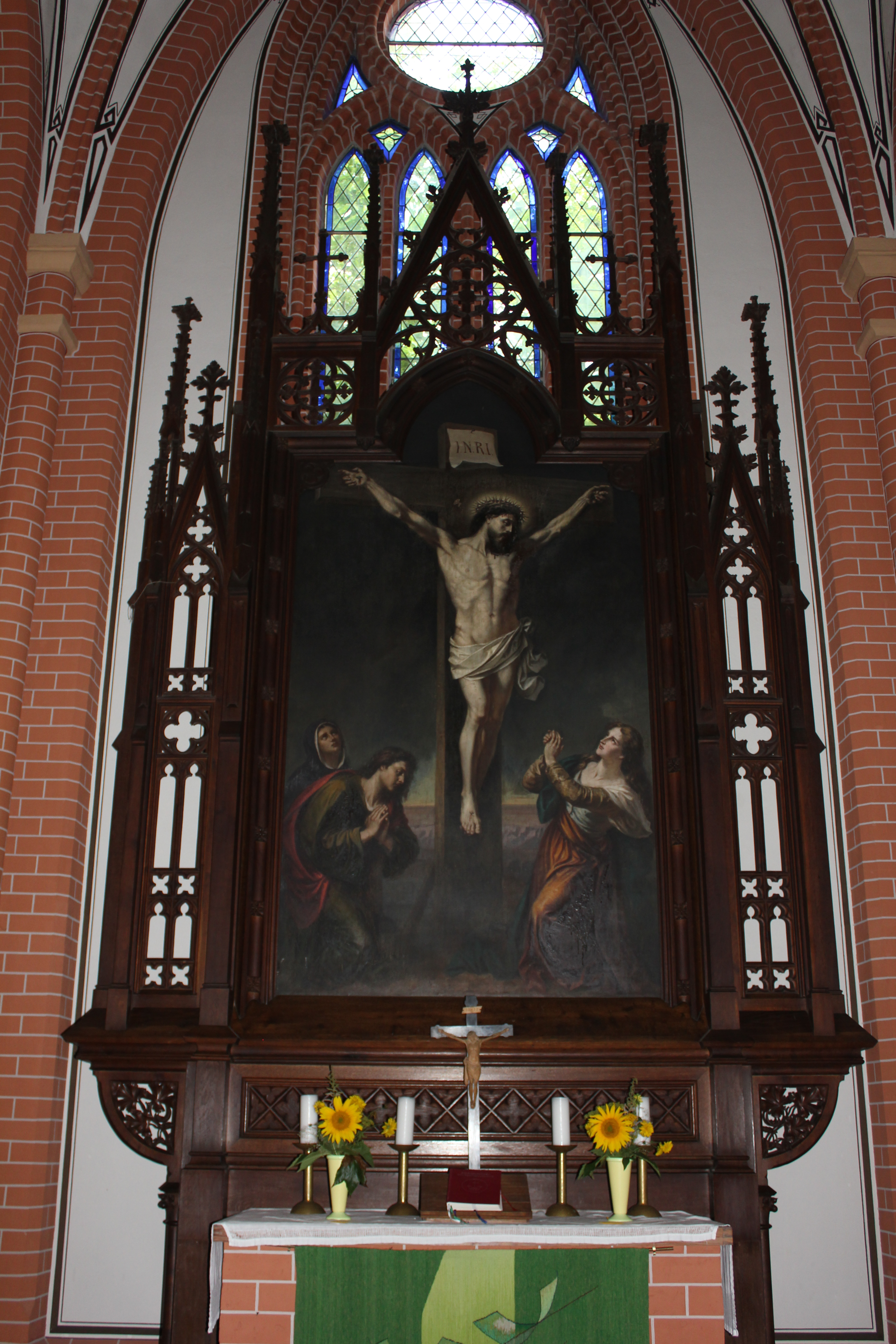 The altar of the church of Penzlin painted from Georg Kannengießer